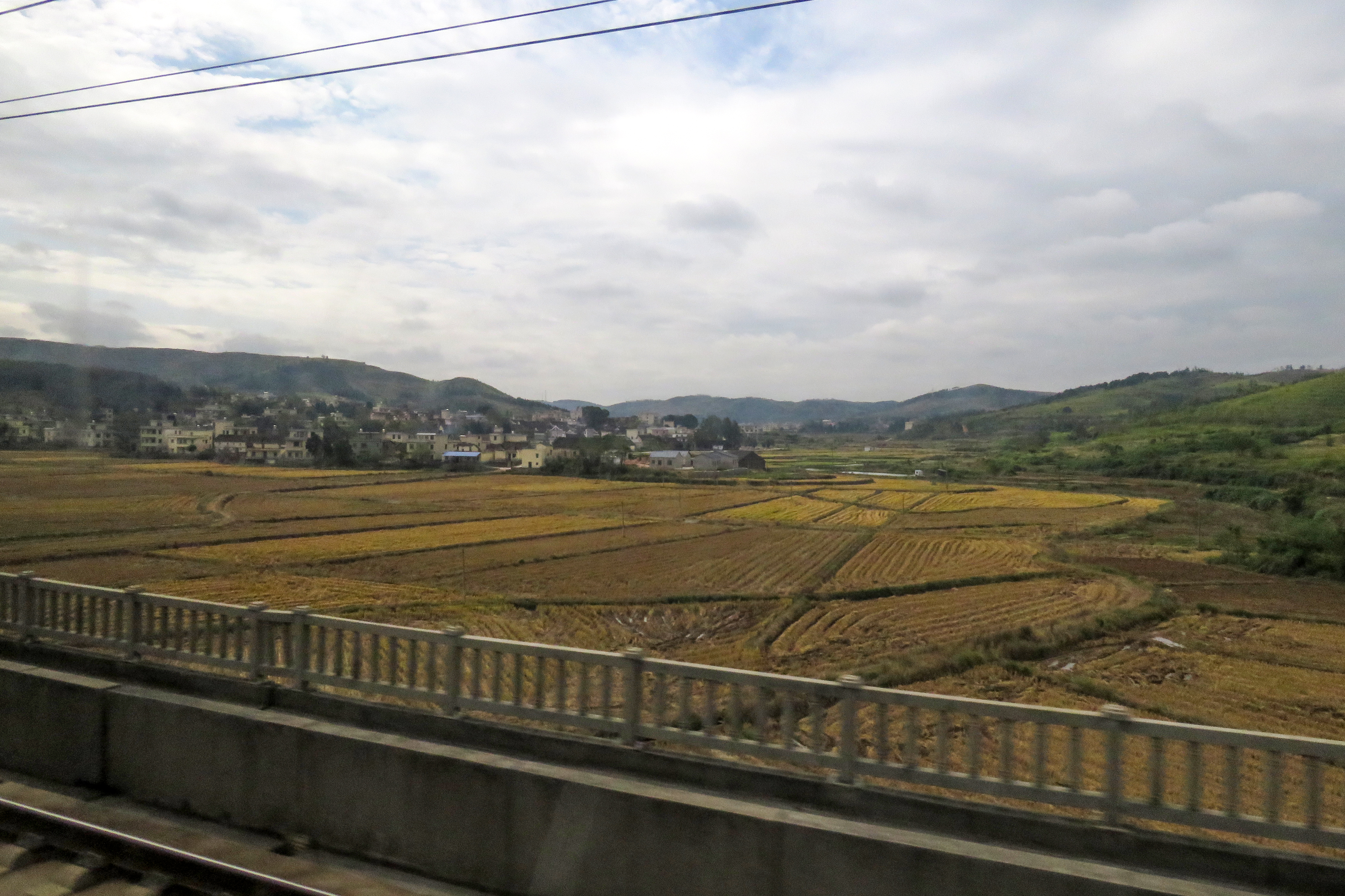 A field between Bagongfen (八公分) and Yangwu (羊乌) villages, along Beijing-Guangzhou HSR.